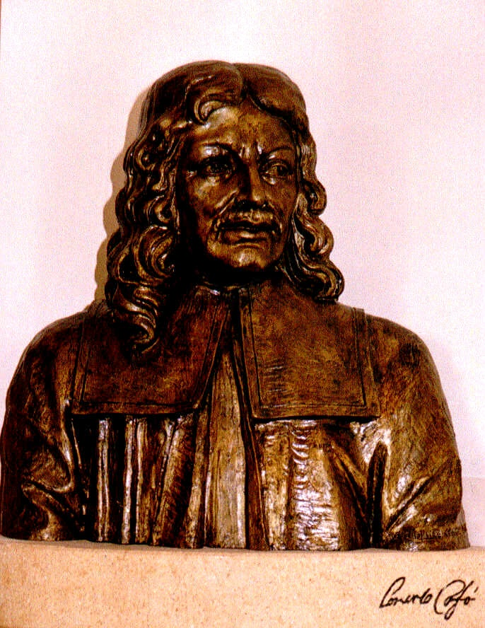 Lorenzo Gafa, Maltese architect